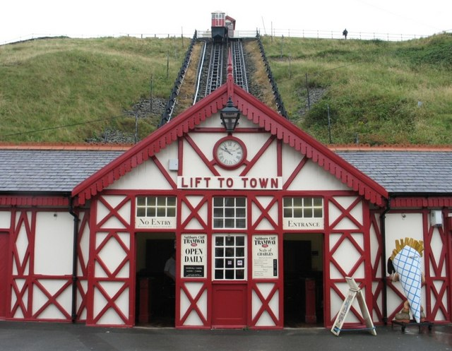 Cliff Railway, Saltburn-by-the-Sea. Saltburn-by-the-Sea is a seaside resort in the borough of Redcar and Cleveland. Founded in 1861 by the entrepreneur Henry Pease, the town sports the most splendid Victorian architecture, one representative being this fine cliff railway (1884), the oldest remaining waterbalance example in Britain (height of the lift is 120 ft, length of the track is 207 ft). Refurbished with stained glass windows, the railway links Saltburn pier with the town.